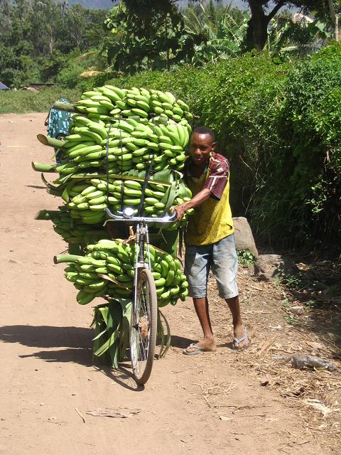 Banana transport in Tanzania using bicycle